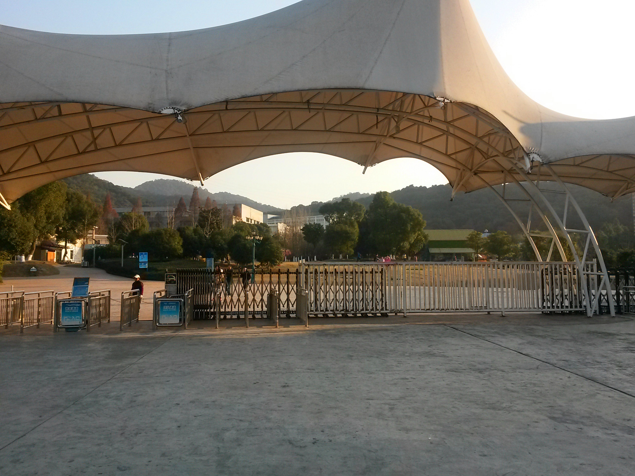 Hangzhou Polar Ocean Park